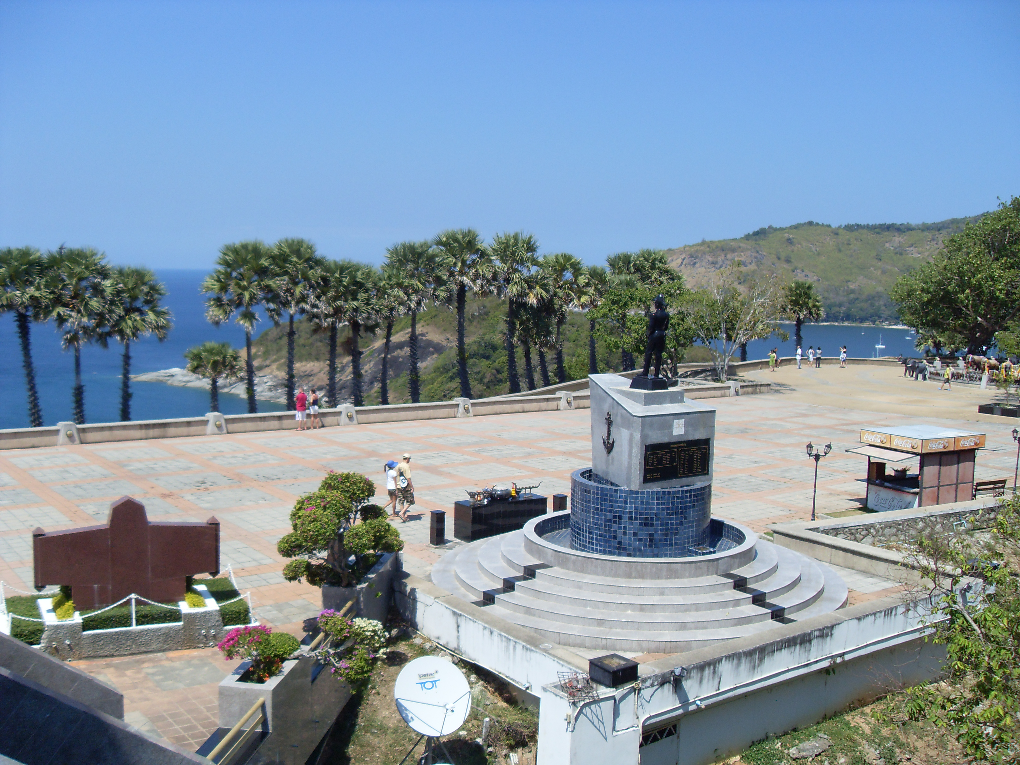 Thailand 2010